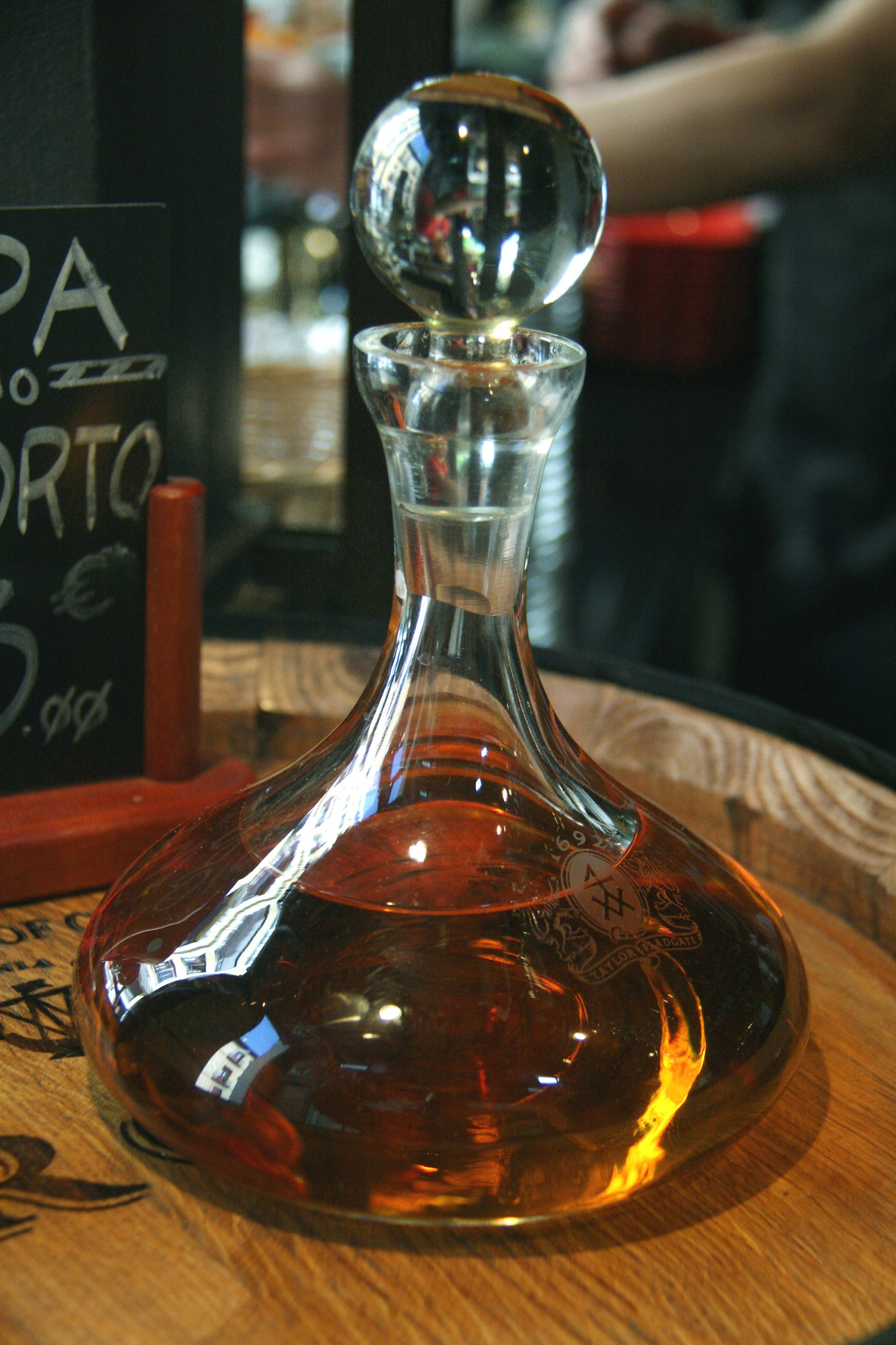 Port wine carafe.